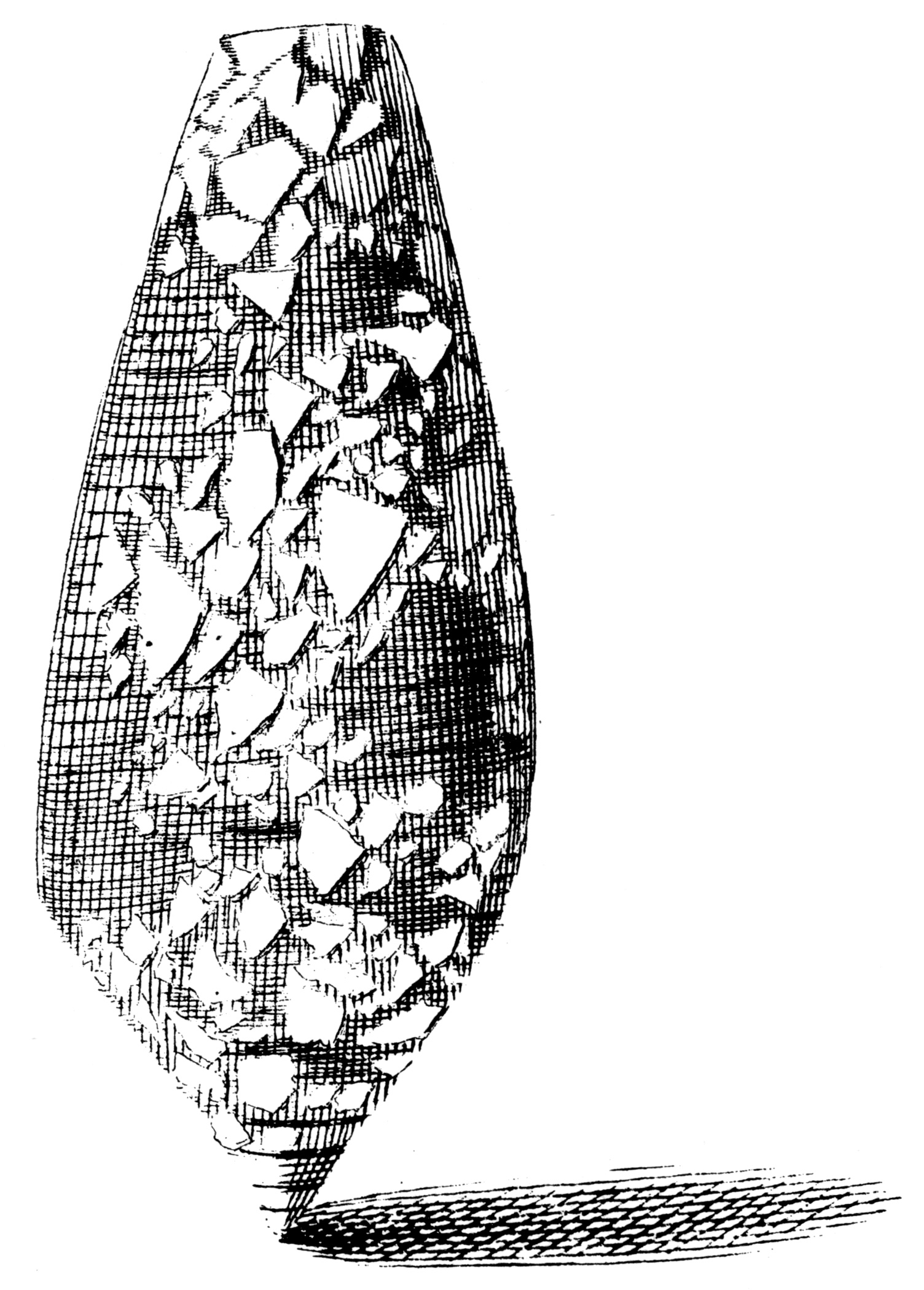 A drawing of Conus aulicus Linnaeus, 1758